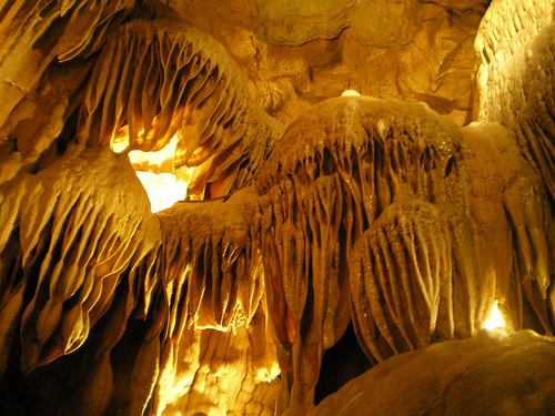 Picture from a showcave in Indian Echo Caverns